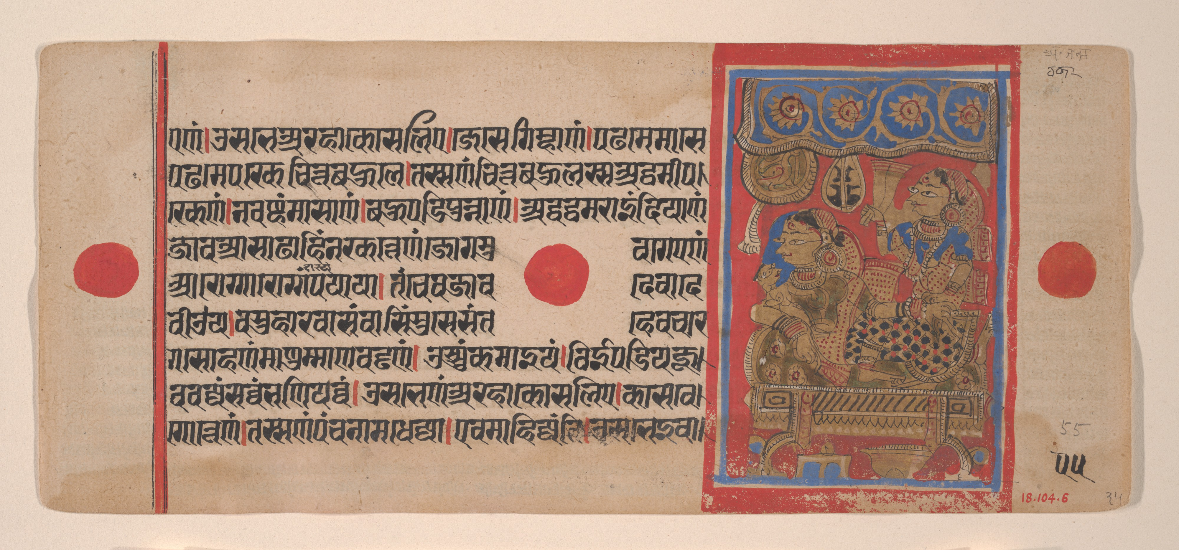 Queen Trisala and the Newborn Mahavira: Folio from a Kalpasutra Manuscript Date: 1461 (Samvat 1519) Culture: India (Gujarat) Medium: Ink, opaque watercolor, and gold on paper Dimensions: 4 3/8 x 10 1/8 in. (11.1 x 25.7 cm) Classification: Paintings Credit Line: Rogers Fund, 1918 Accession Number: 18.104.6 This artwork is not on display